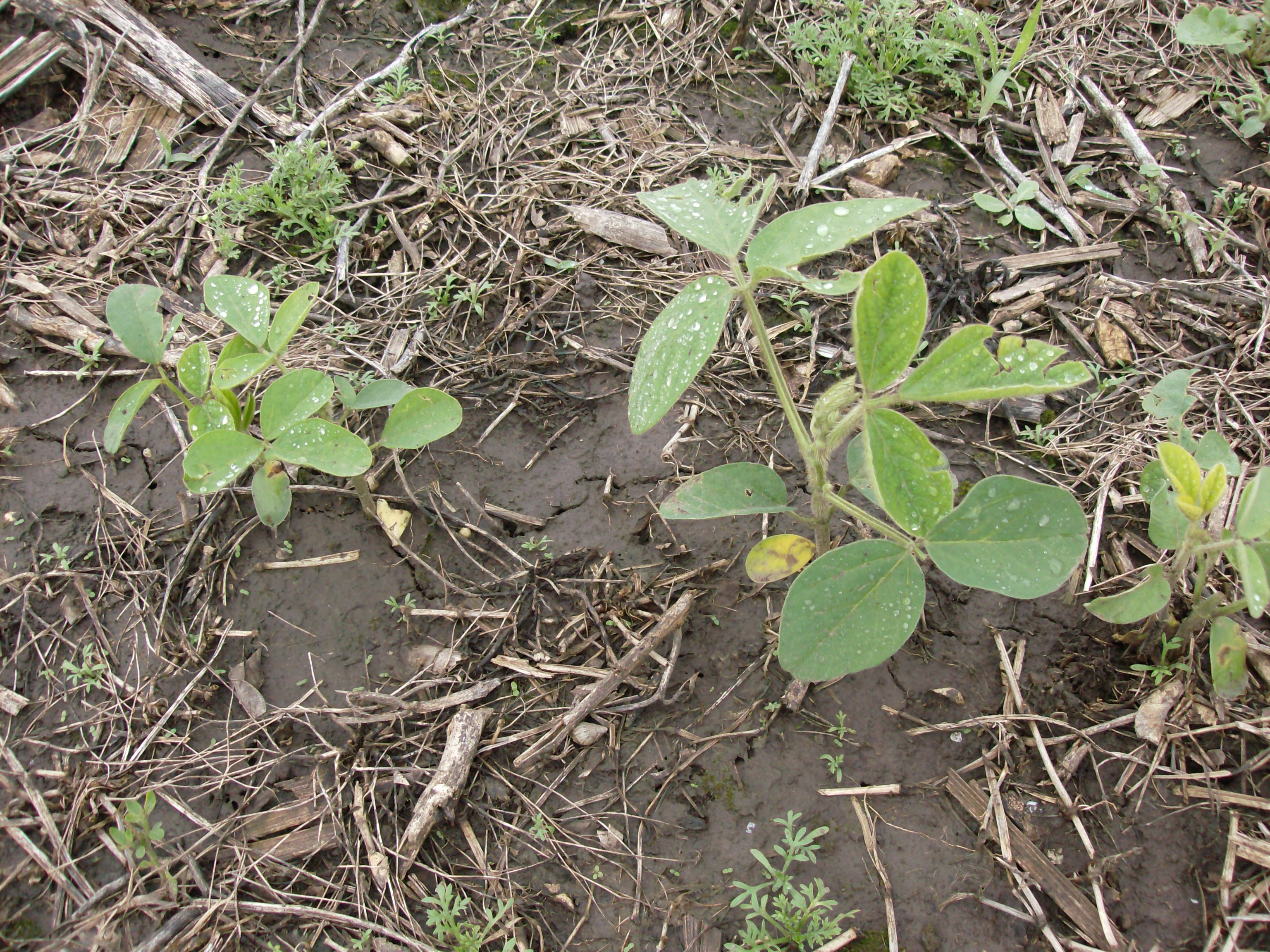 In this image we can see soy plants. These plants were sowed on October 20 on 2009 and the picture was taken on November 22 on 2009.